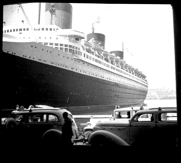 The SS Normandie in NYC Harbor during the celebration of the riband Crossing.